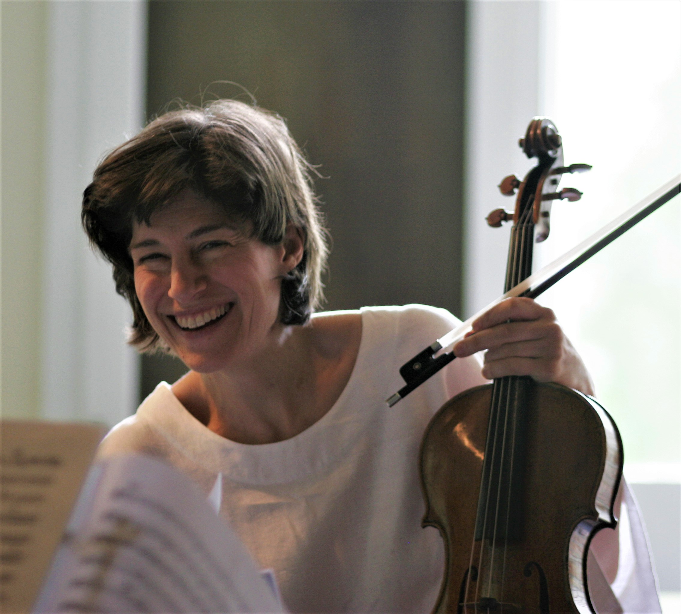 Violist Kim Kashkashian during a rehearsal in Malboro, Vermont 2008 Photo: Claire Stefani